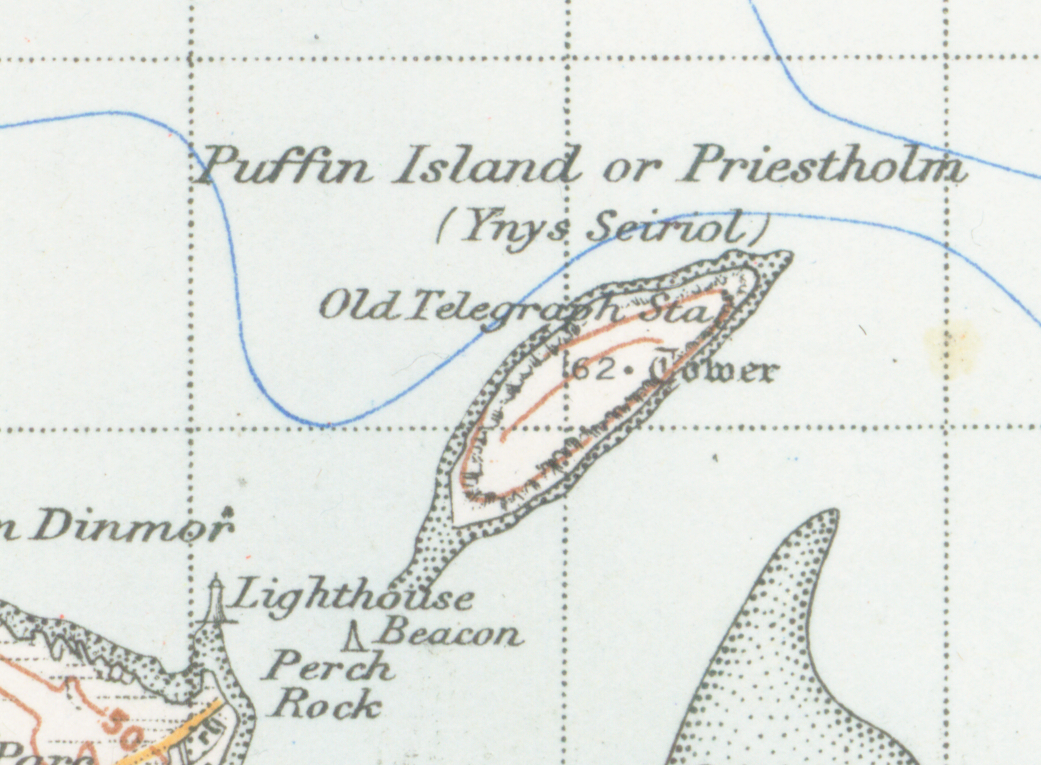 Map of Conwy from 1947. Scale 1 inch to the mile 600DPI Sheet 107 "Snowdon"